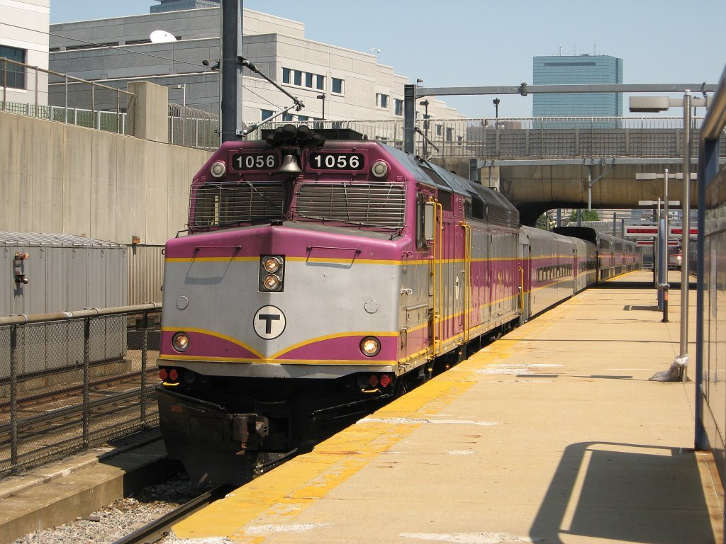 MBTA F40PH-2C 1056 enters the Ruggles station as Needham Line train 613.